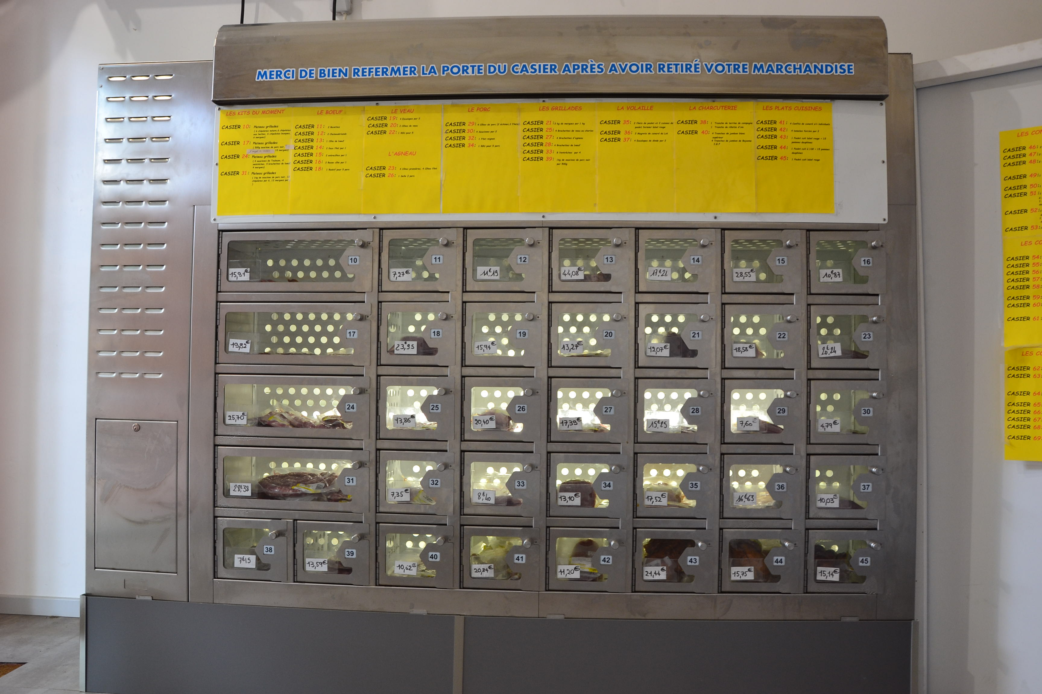 Automat for meat and "charcuterie" in Cahors, France